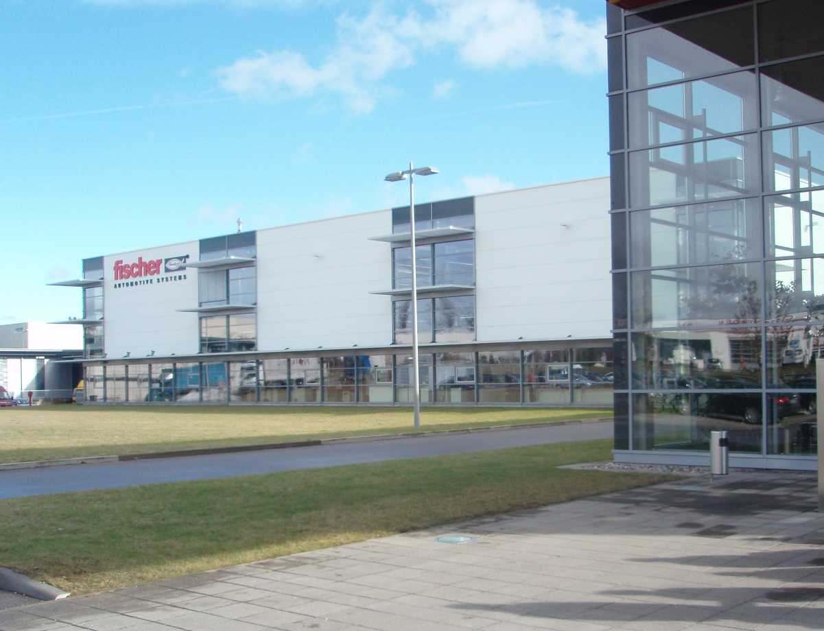 Fisher Automotive, factory in Horb am Neckar, Germany